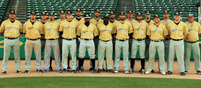 Team Picture 2016